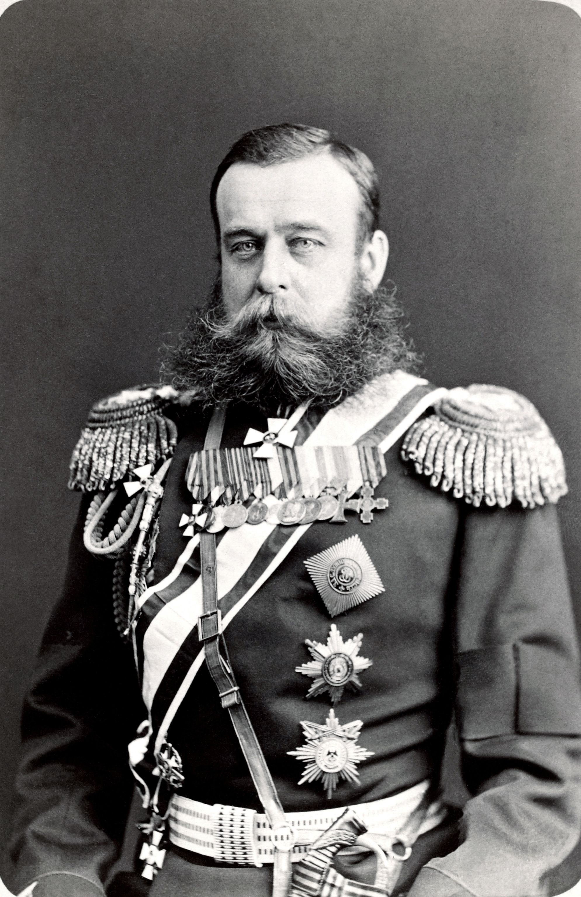 Mikhaïl Skobelev (1843 - 1882), russian general.